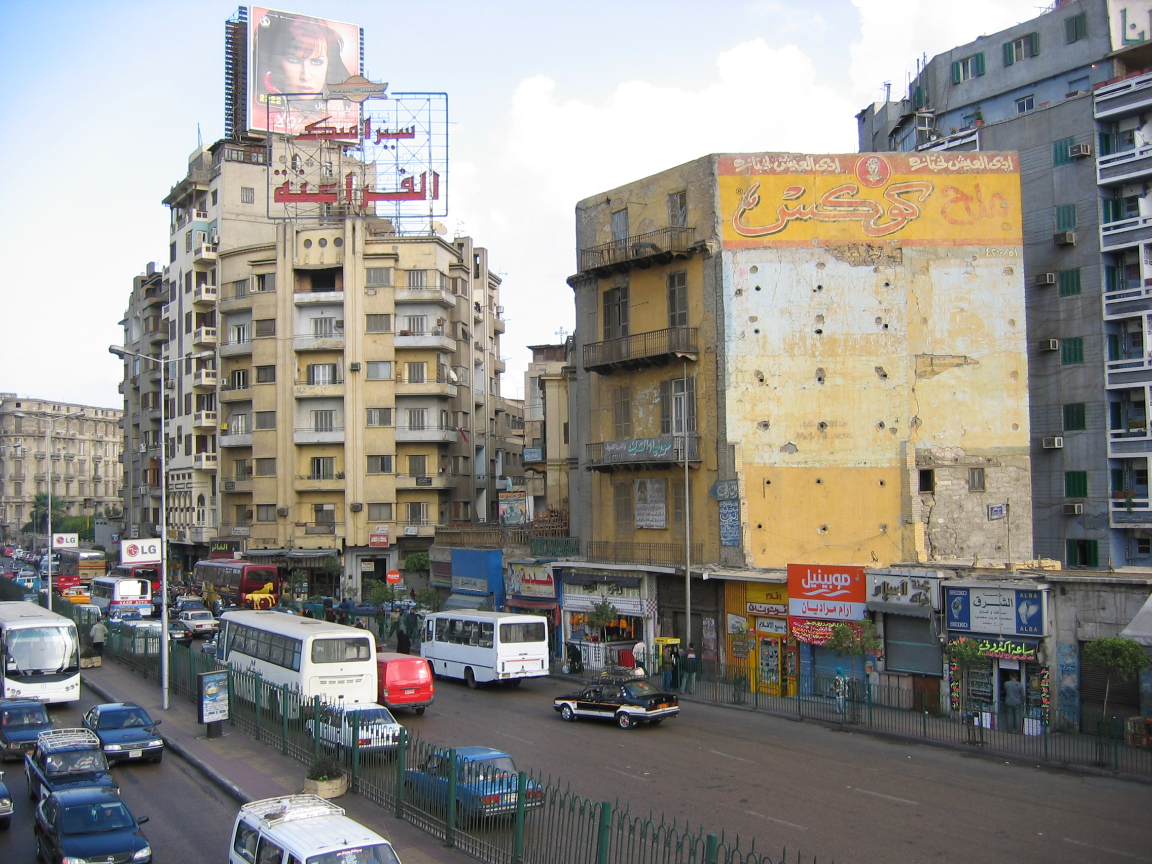 City Centre of Cairo, taken by me December 2004